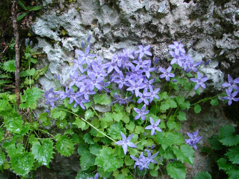 Campanula fenestrellata